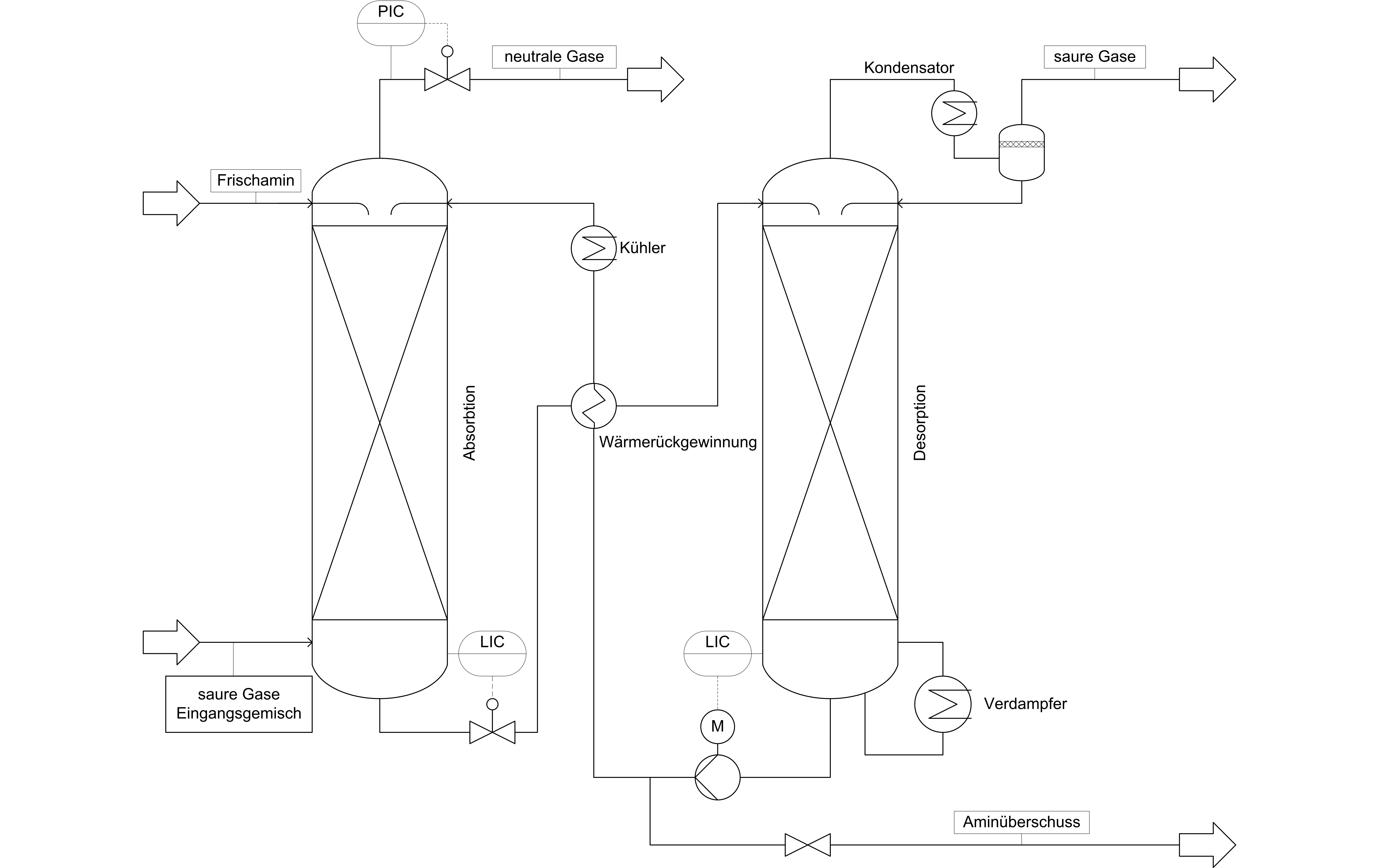 Amine washing